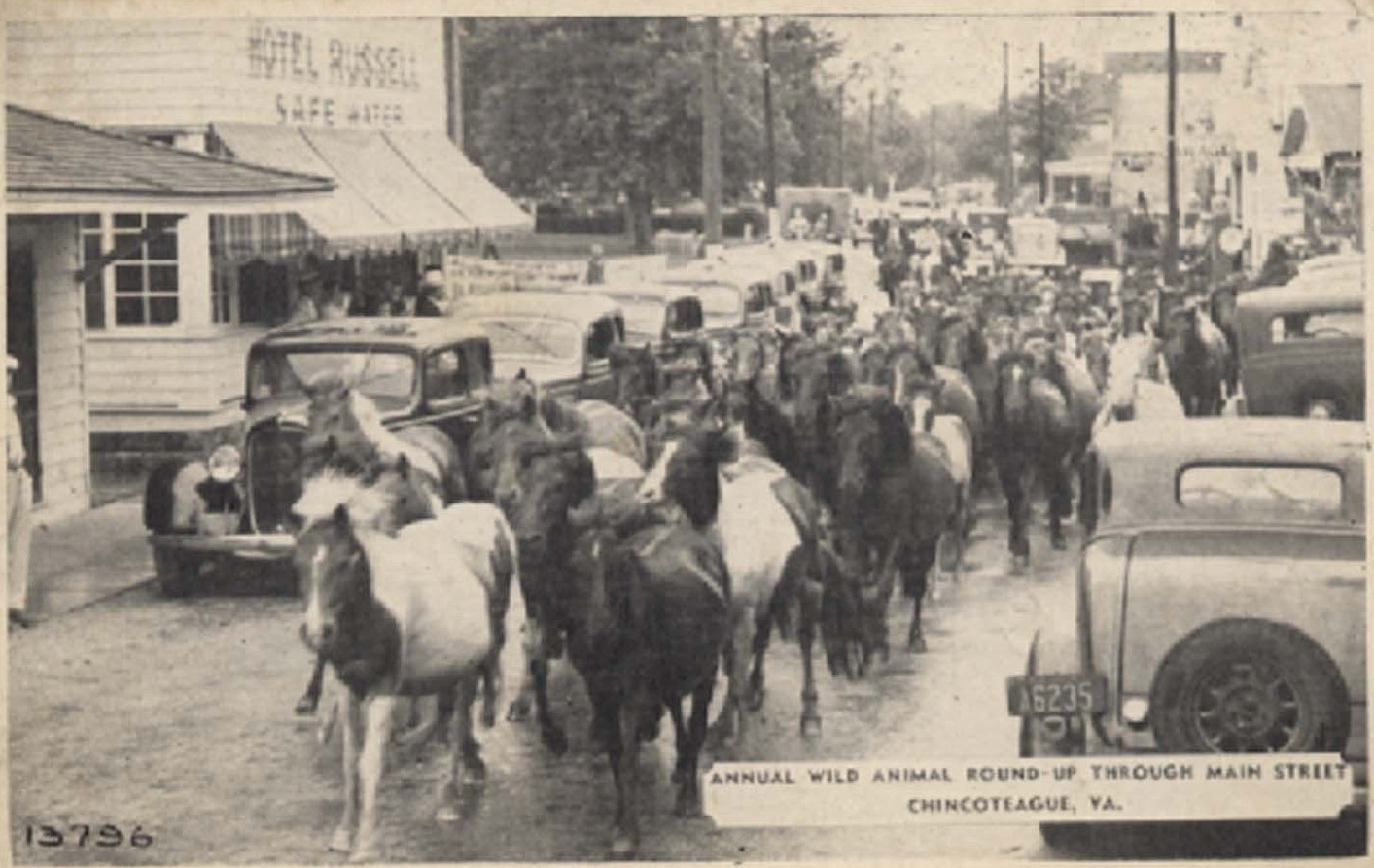 Picture side of 1941-postmarked postcard depicting the Chincotegue ponies.